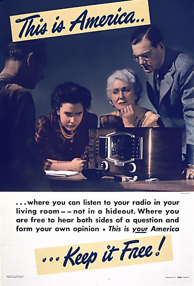 Radio-related World War II propaganda poster for the United States.